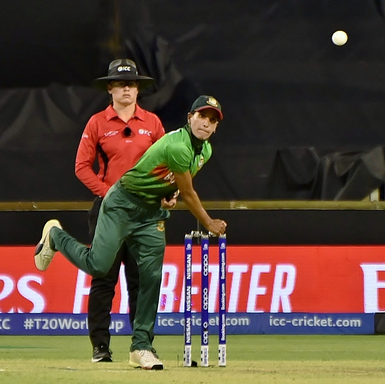 Salma Khatun bowling for Bangladesh against India during their 2020 ICC Women's T20 World Cup match at the WACA Ground in Perth, Australia